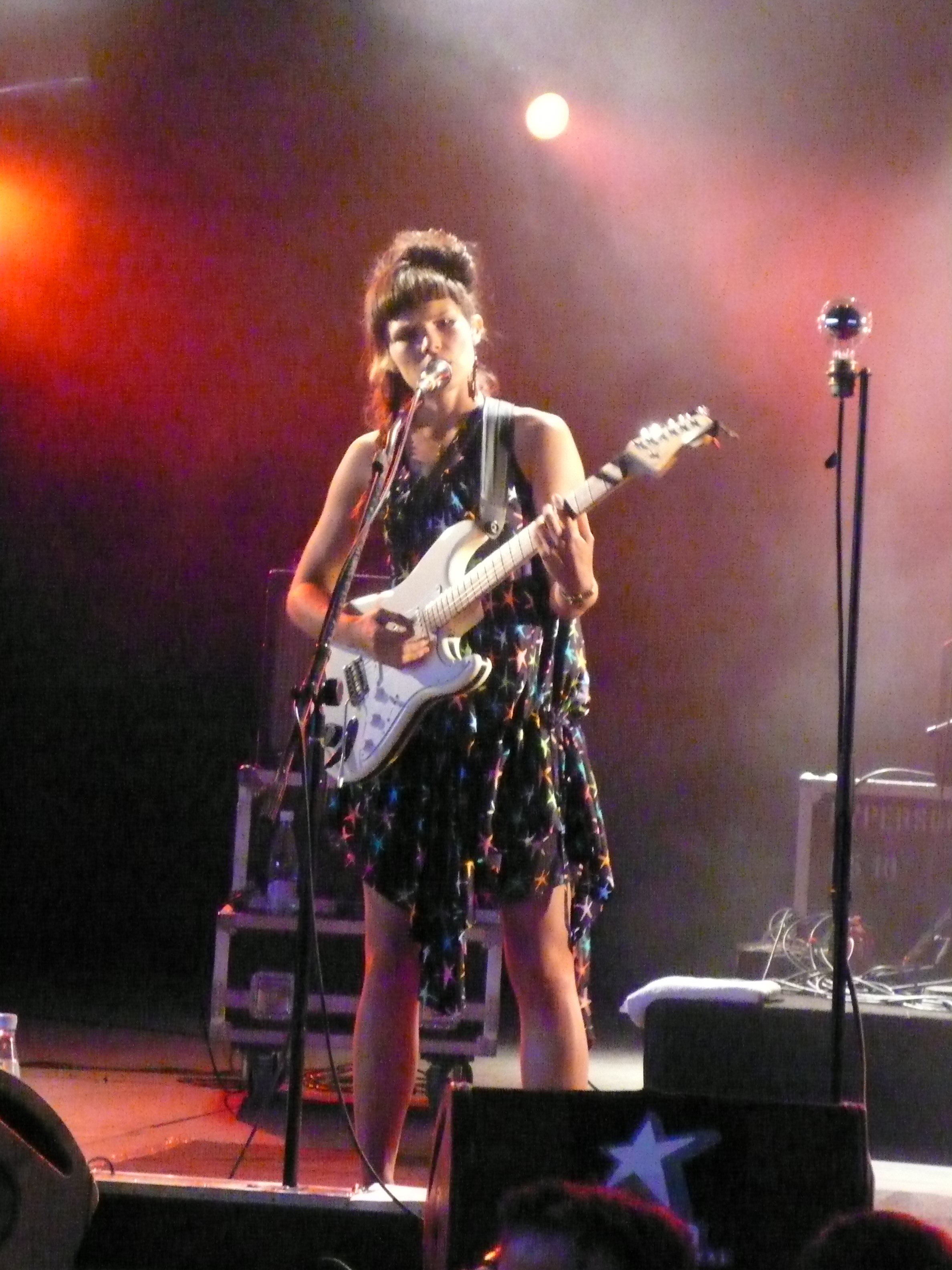 The Finnish-French musician and singer Olivia Merilahti (vocalist of the French duo The Dø) during the Paléo Festival 2008